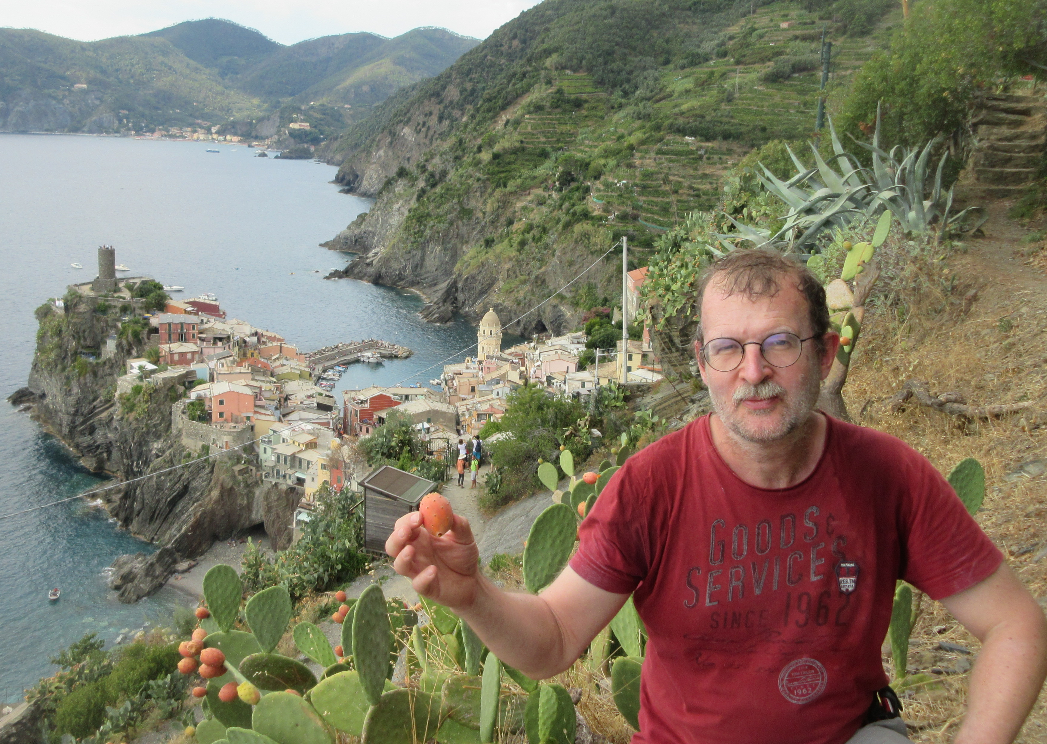 Geneticist Günter Theißen near Vernazza